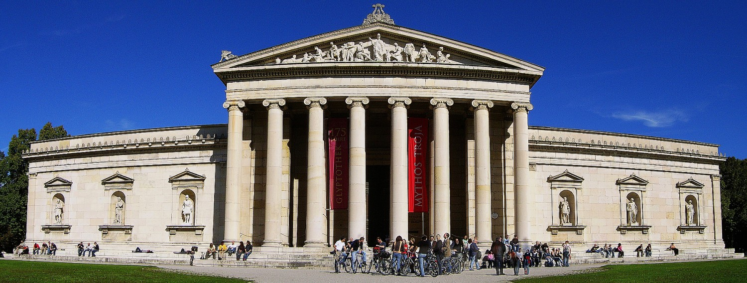 Glyptothek in Munich, Bavaria.